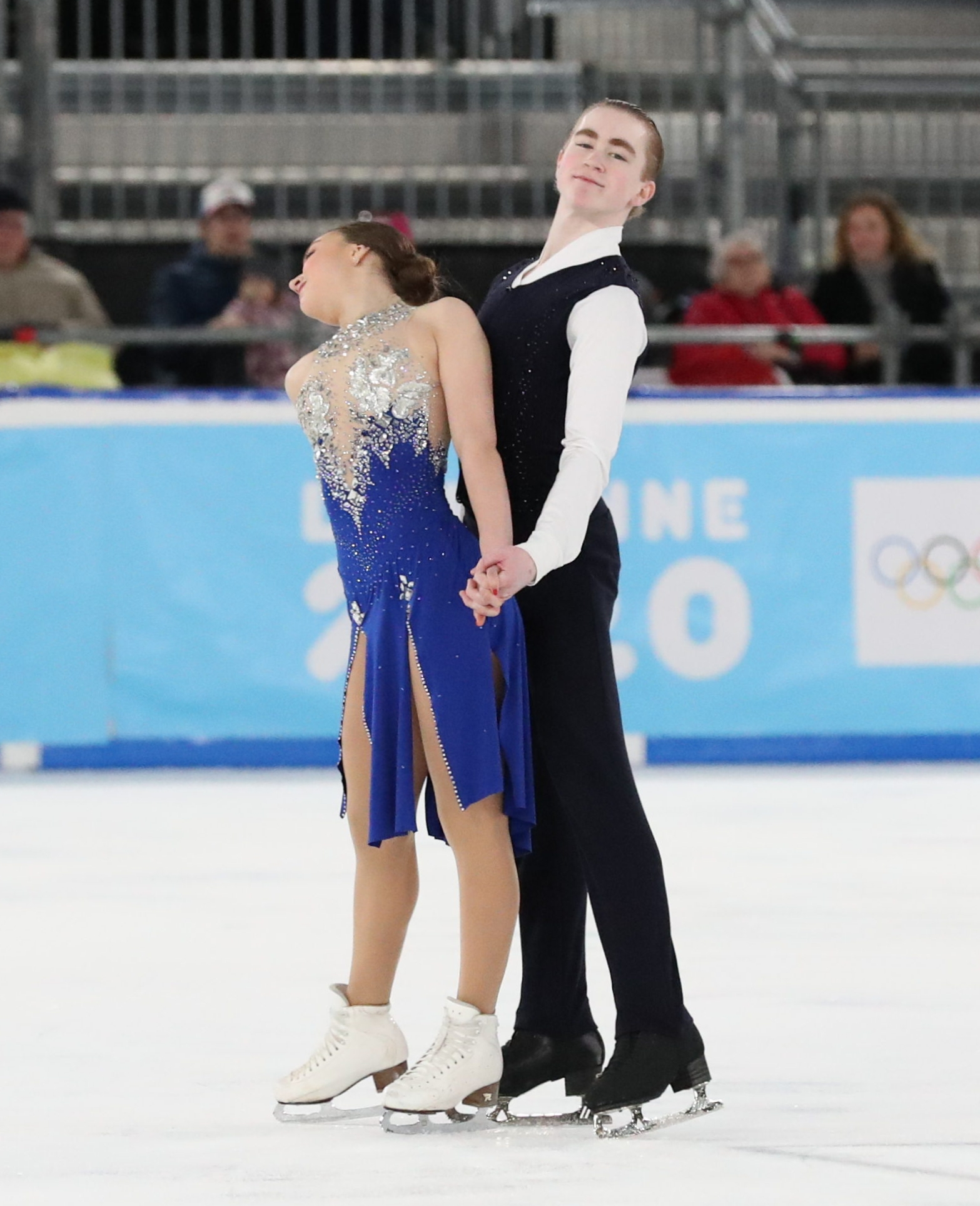 Ice Dance Rhythm Dance at the 2020 Winter Youth Olympics in Lausanne